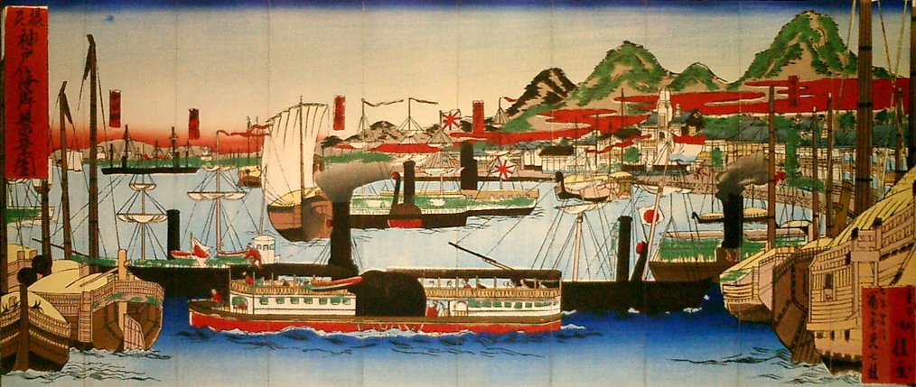 A wall painting reproducing a ukiyo-e print titled "Sesshu Kobe : Kaigan han’ei-zu" ("The coastal landscape in prosperity", from the series: Kobe in Sesshu municipality ). Artist of the original drawing is Hasegawa Sadanobu II (1848-1940: attributed to Hasegawa Shoshin/Konobu, the artist’s name before his father had expired). The traffic of those western style steam ships as well as Japanese traditional boats with the backdrop, or Wada Point (ja) in Port of Hyogo as well as port and defense facilities are drawn to illustrate the area not many years from the 1860s when resuming international trade it had enjoyed. Painted on the wall of underground shopping mall DUO Kobe (ja), adjacent to the Kobe Harborland (ja). Approximately W10×H3 meters.